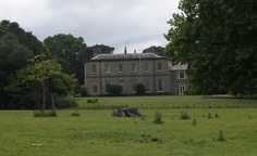 The east front of Wassand Hall, Wassand, East Riding of Yorkshire, England.. This house was built in 1815 to replace the 17th Century house. The family name is Constable, later Strickland-Constable they have owned the Wassand Estate since 1530.